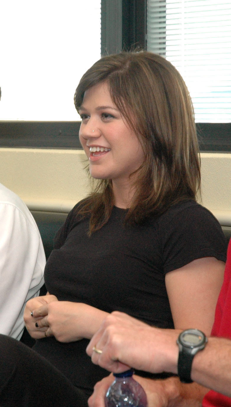 (Original caption from source) From left, University of Oklahoma head football coach Bob Stoops, RCA recording artist and American Idol winner Kelly Clarkson, and former NFL quarterback and now sports anchor for CBS 11 News in the Dallas/Fort Worth metroplex Babe Laufenberg receive their safety brief prior to taking a ride with the U.S. Navy's flight demonstration team the Blue Angels on Joint Reserve Base Naval Air Station Fort Worth, Texas, May 10, 2006. This version is cropped to just Kelly Clarkson.